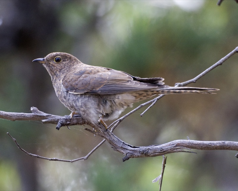 Fan-tailed Cuckoo (Cacomantis flabelliformis) 10th. December 2011, Grampian National Park, Victoria, Australia Distribution: Avibase map